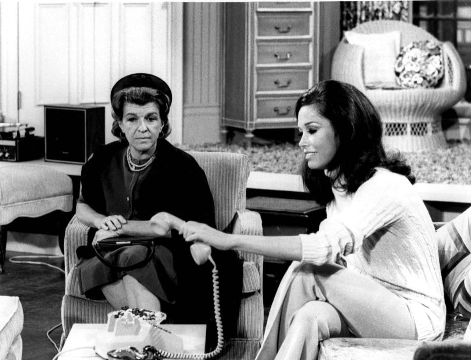 Photo of Nancy Walker as Ida Morgenstern and Mary Tyler Moore as Mary Richards from The Mary Tyler Moore Show. In this episode, Ida, the mother of Rhoda, arrives in Minneapolis unannounced. She has nowhere to stay when her daughter refuses to see her, so she becomes Mary's houseguest. This introduces the character of Ida to the series-her first appearance in it.